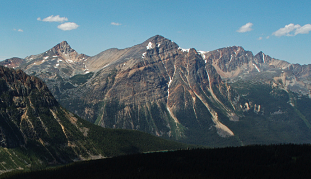 Chak Peak, Franchere Peak, and Aquila Mountain seen from Cavell Meadows trail. Jasper National Park, Canada